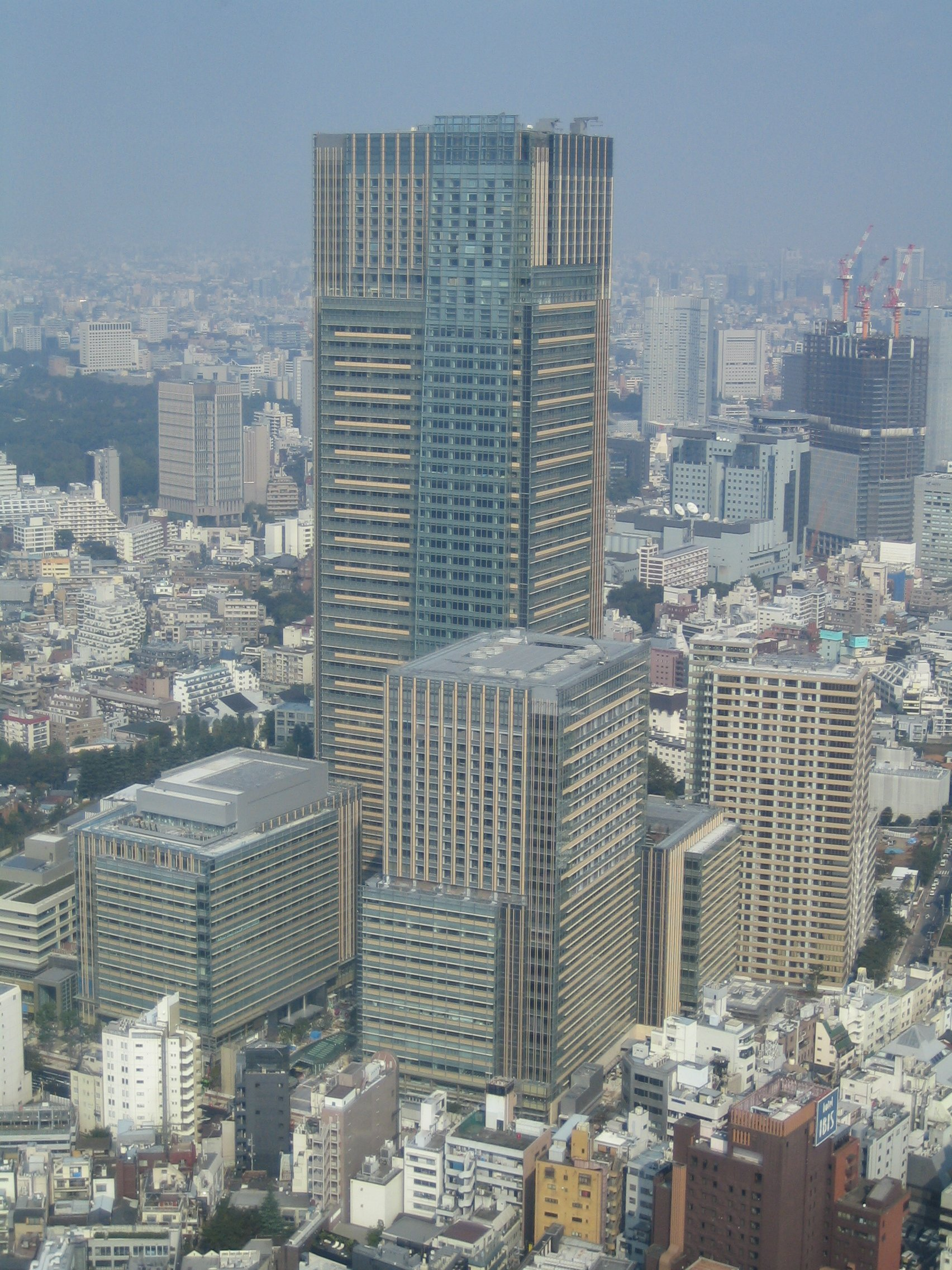 Tokyo Midtown Project overview.